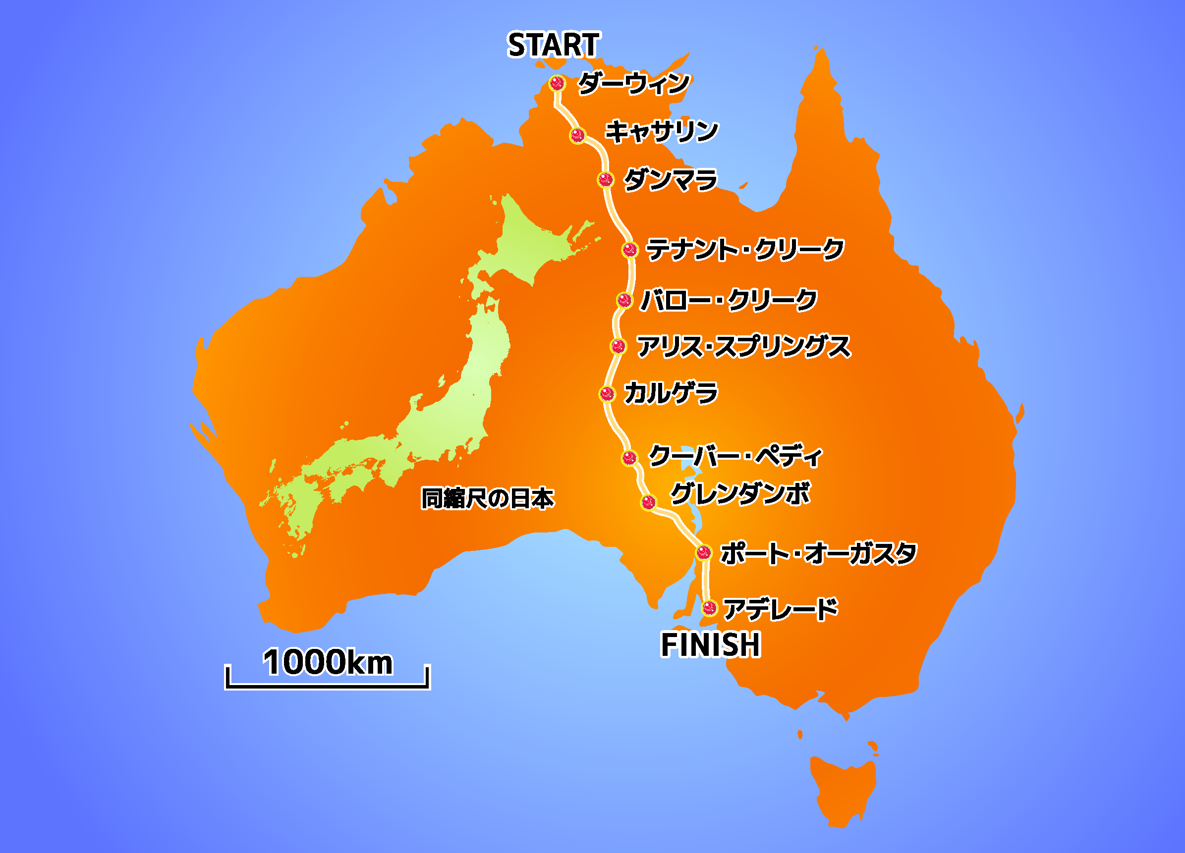 3000km Route of Global Green Challenge in Australia.